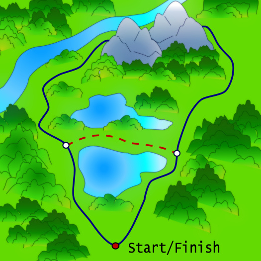 Shortcut (red dotted line)